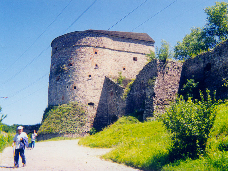 The fortress of Kamieniec Podolski; the view of the "Tower of Stefan Batory, one of the gateways to the fortified town.